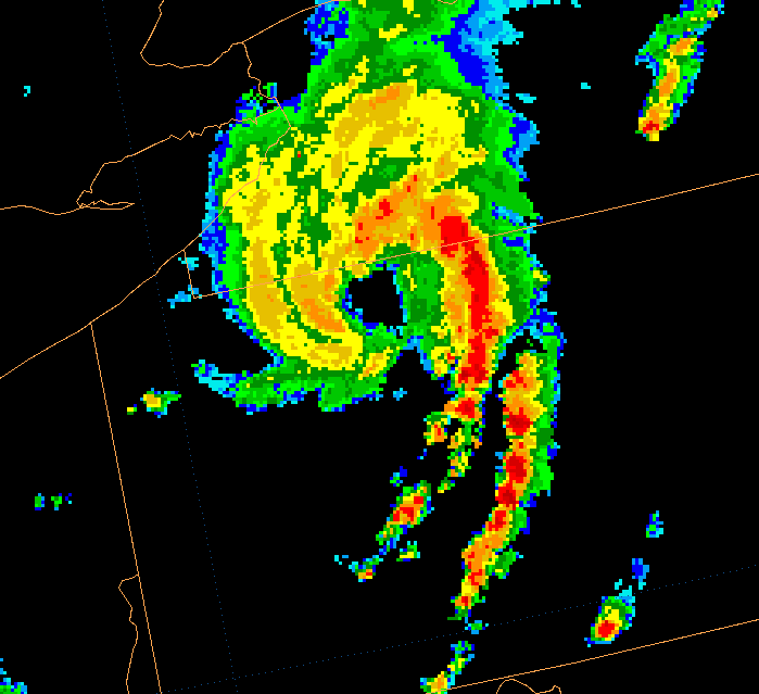 Unusual Mesoscale Convective System over land, that affected eastern Great Lakes, Upper Ohio valley, and northern Mid-Atlantic regions of the United States in 2003. Tropical cyclone look-a-like vortex was in fact the meeting of a supercell Hook echo region and a squall line.